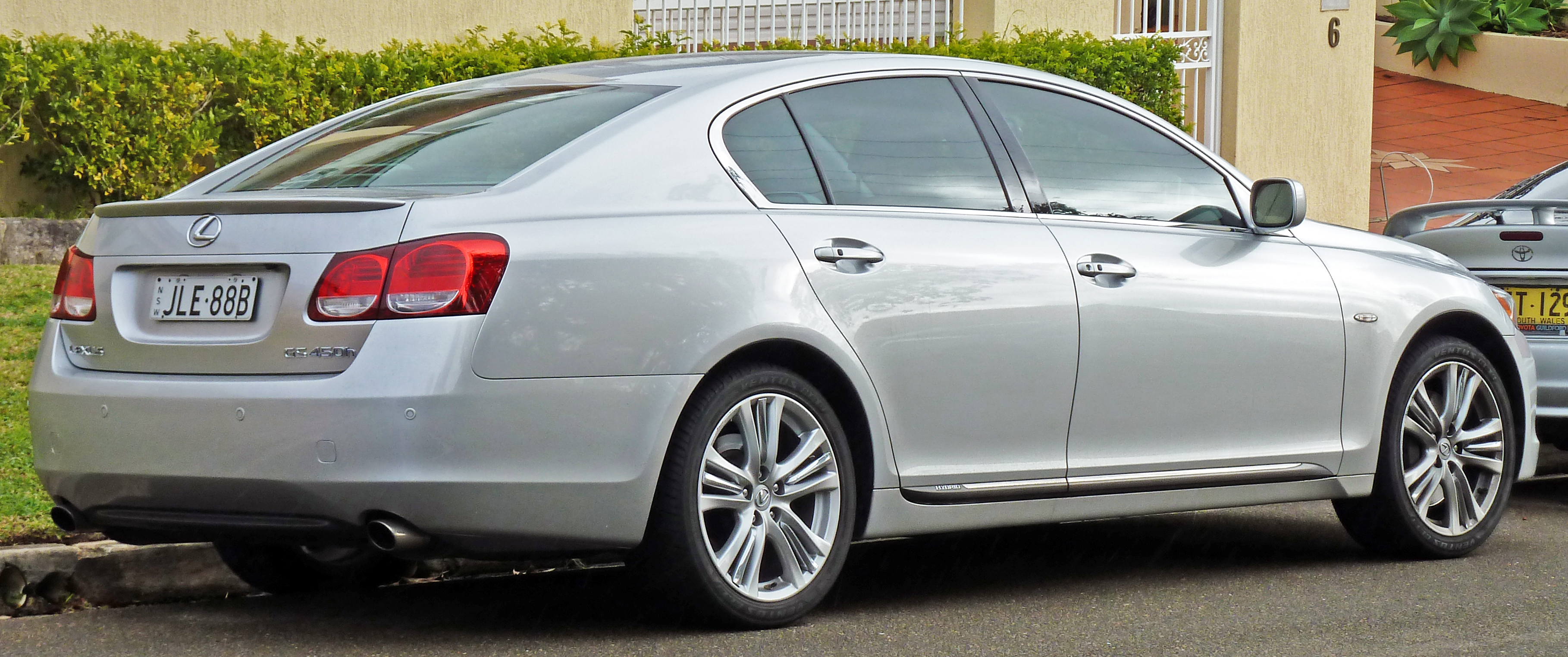 2007 Lexus GS 450h (GWS191R) sedan. Photographed in Kangaroo Point, New South Wales, Australia.